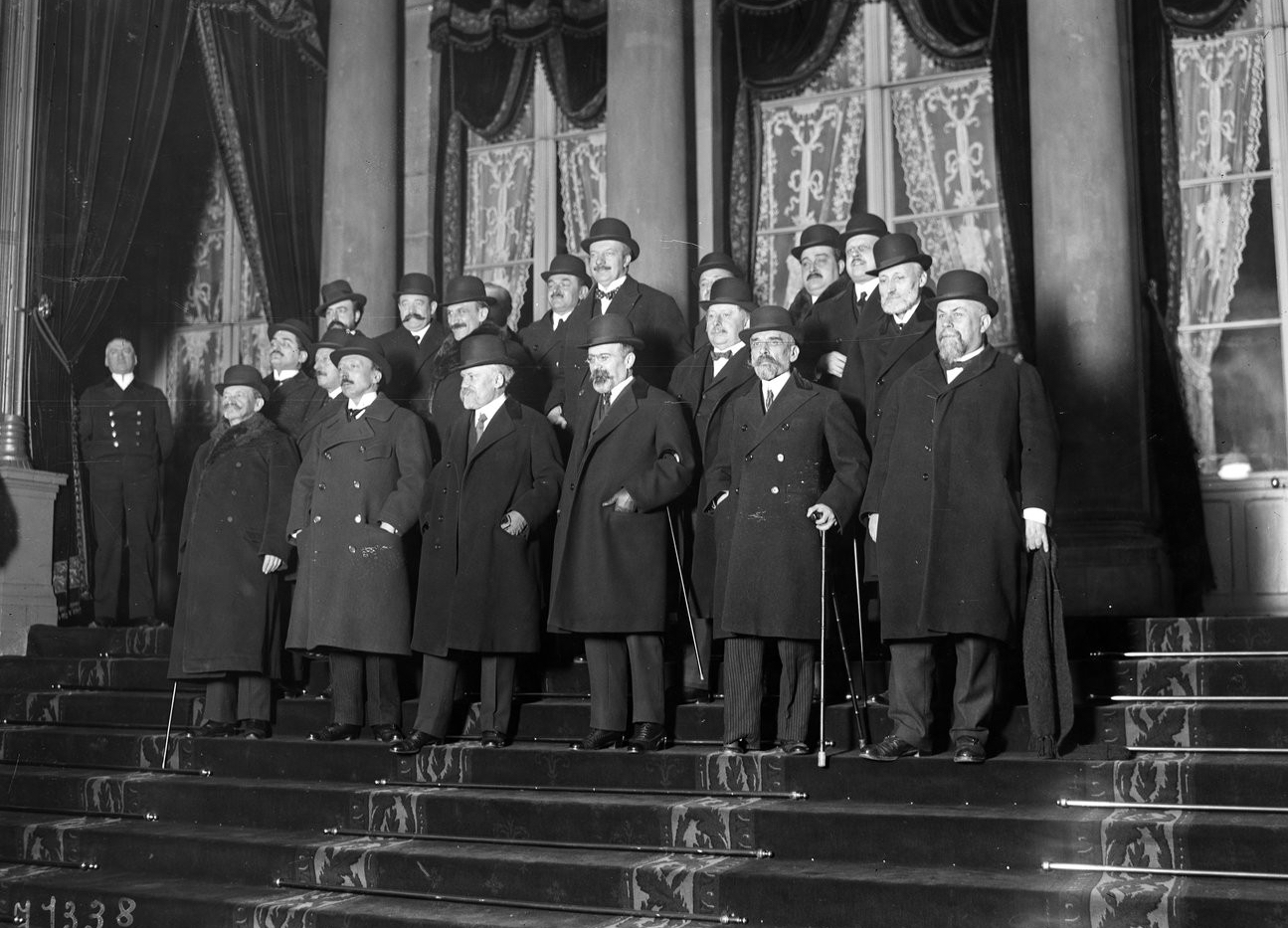 Ministère Poincaré [au 1er rang, de g. à d., Paul Strauss, Léon Bérard, Poincaré, Barthou, Maunoury, H. Chéron, au 2e rang, de g. à d., Laurent Eynac, Colrat, Dior, Raiberti, et, au 3e rang, de g. à d., Laffont, Le Trocquer, Lasteyrie, Rio, Maginot, Peyronnet, Vidal, Reibel] : [photographie de presse] / [Agence Rol]